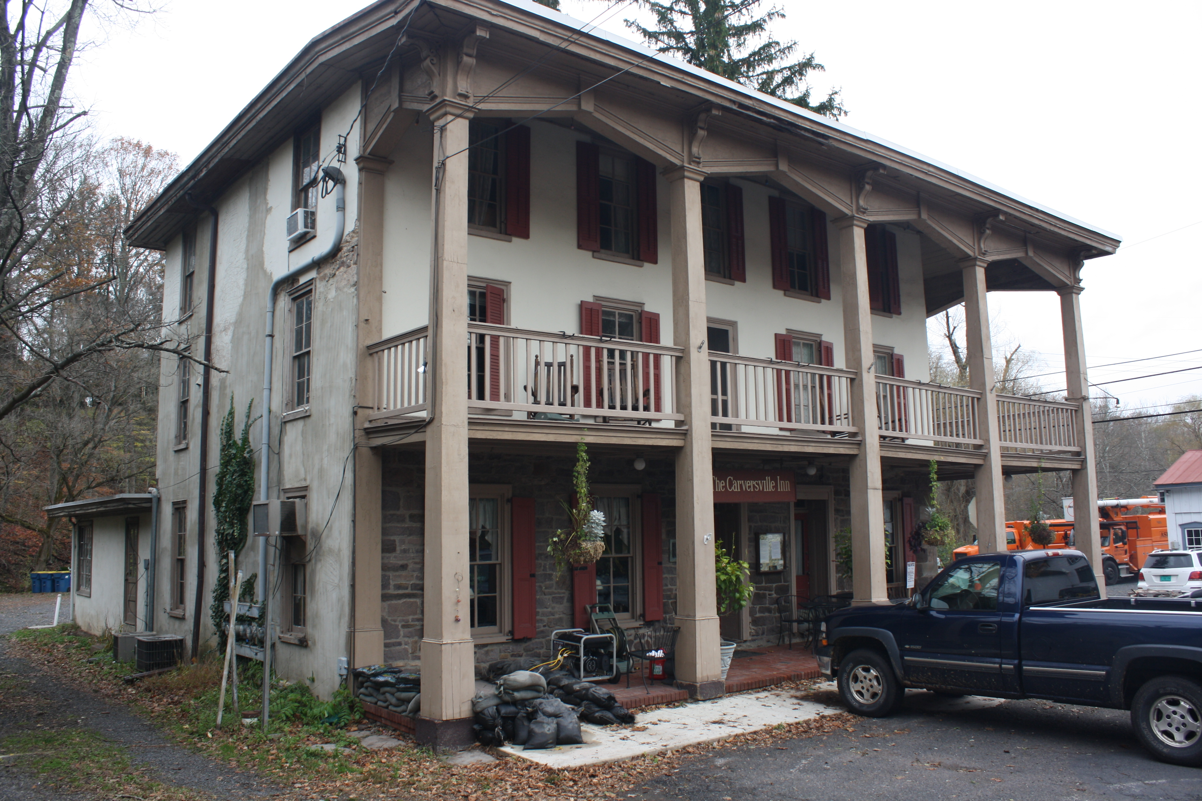 Carversville Historic District is a national historic district located at Carversville, Solebury Township, Bucks County, Pennsylvania. Carversville Inn. Object location40° 21′ 44″ N, 75° 00′ 07″ W